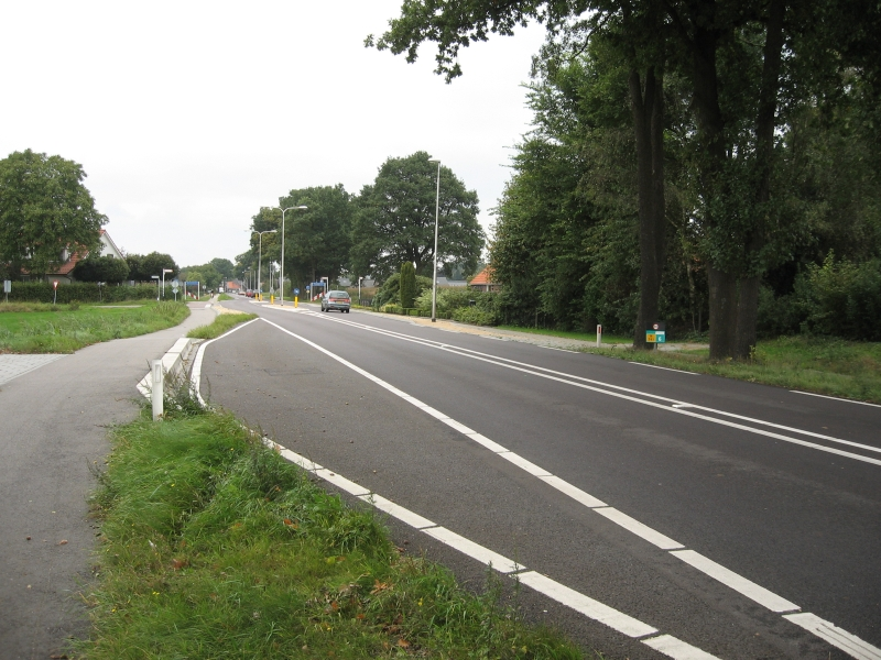 Dutch Provincial Road 741 near Bornerbroek